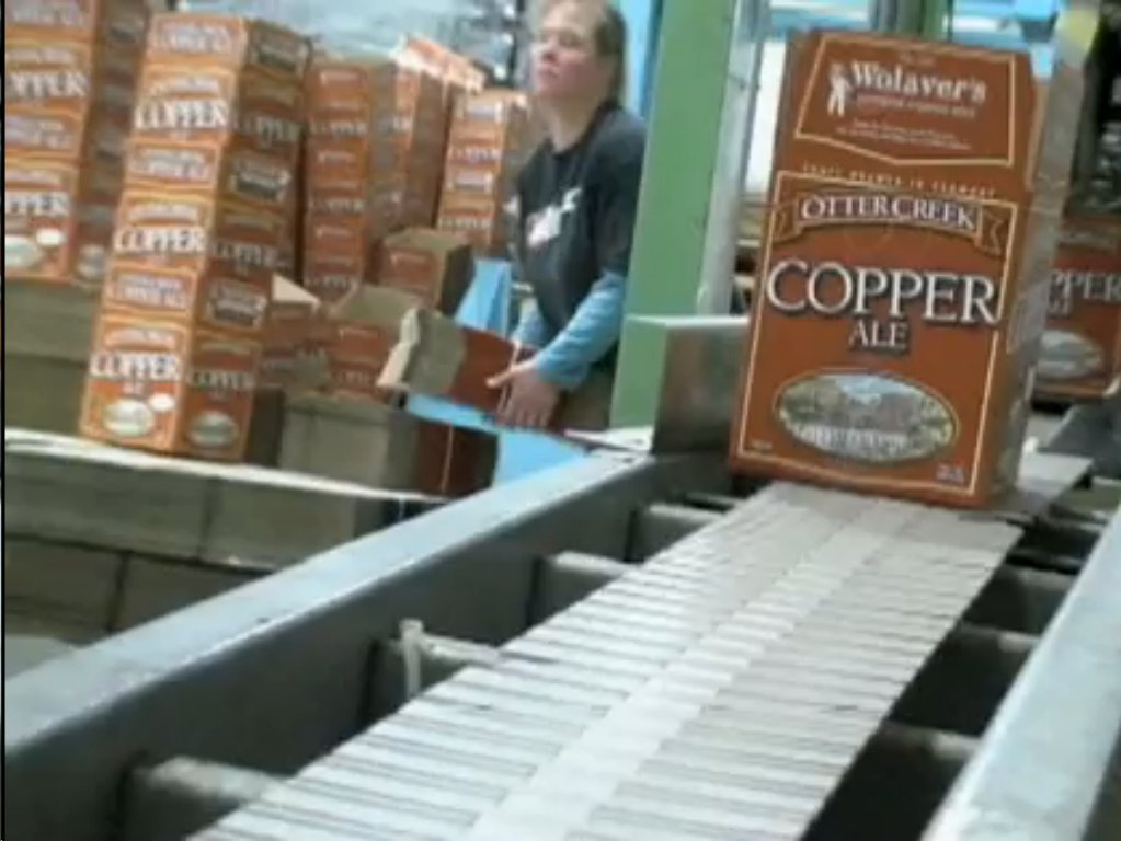 Finished cases of beer at the end of production line. Otter Creek Brewery.